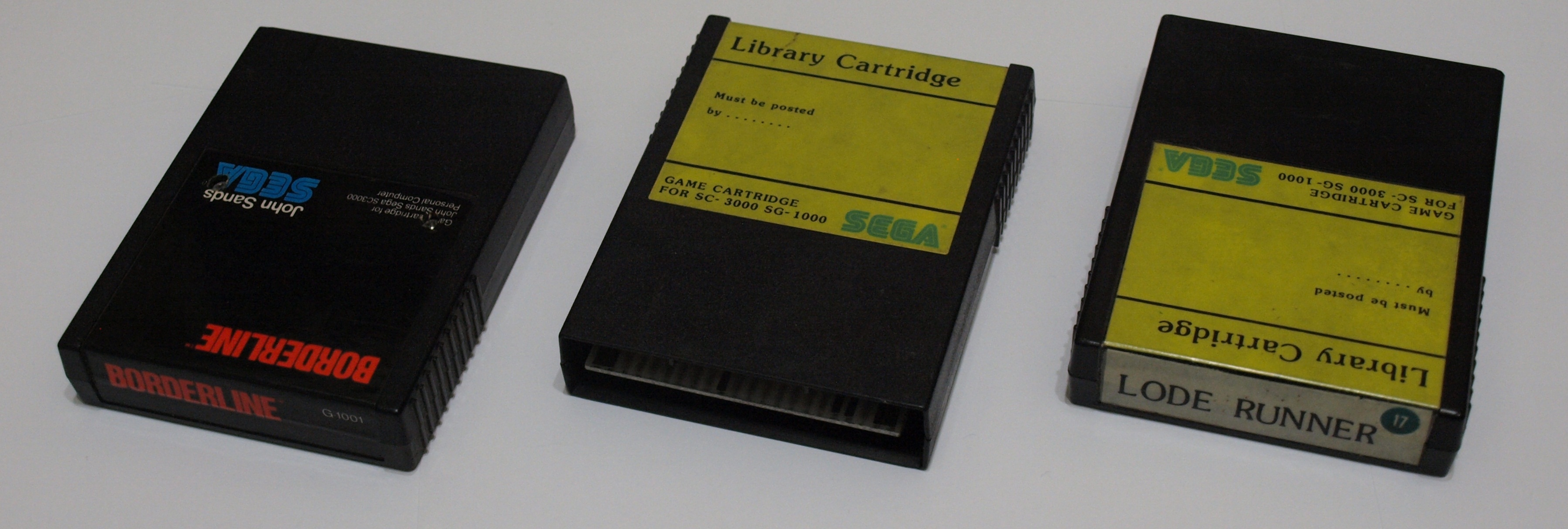 Cropped picture of some Sega SG-1000 and SC-3000 cartridges. With an unintended & mild optical illusion.[which one?]